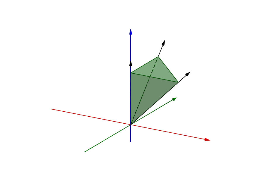 pointed polyhedral cone